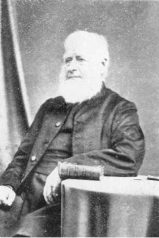 Bishop William Williams (bishop). First missionary in Poverty Bay in new zealand